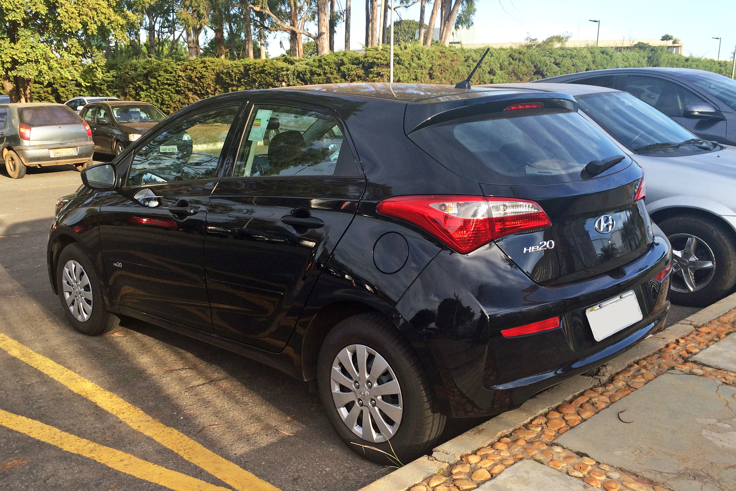 Rear view of the Hyundai HB20, Brasilia, Brazil